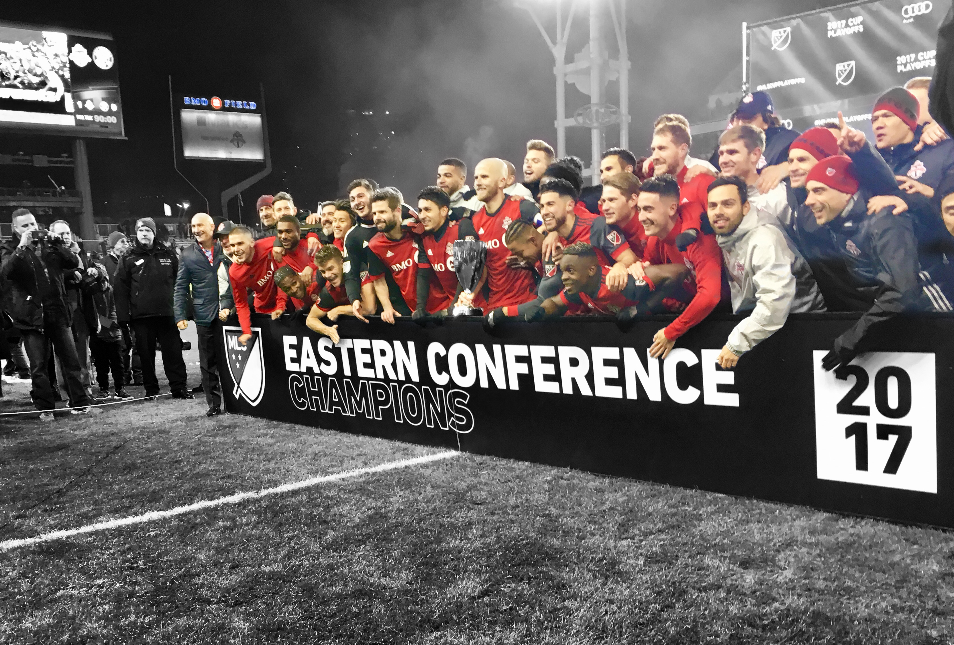 Toronto FC crowned as 2017 MLS Eastern Conference Champions